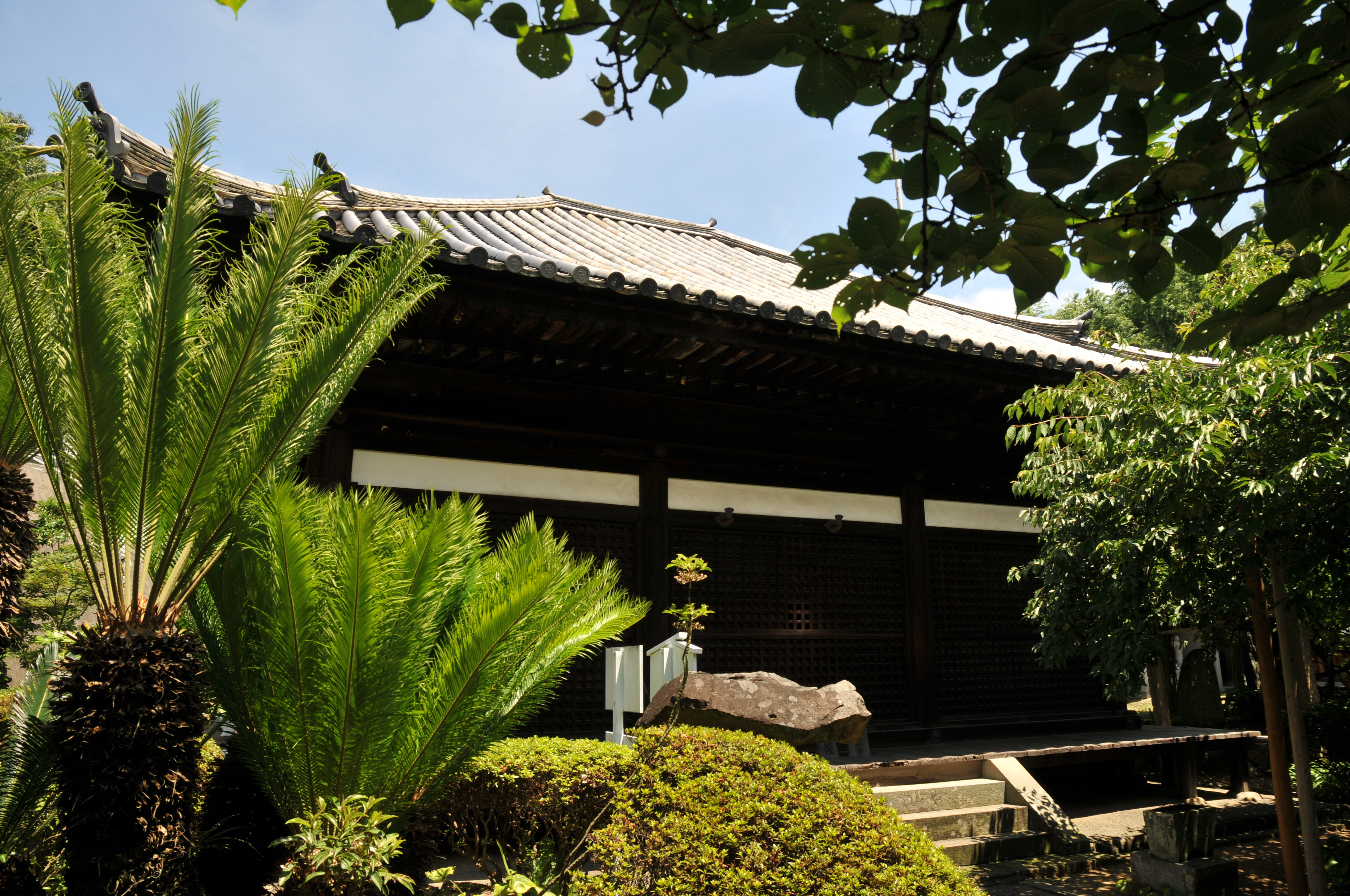 Main temple(Japan's National Treasure), Taihō-ji